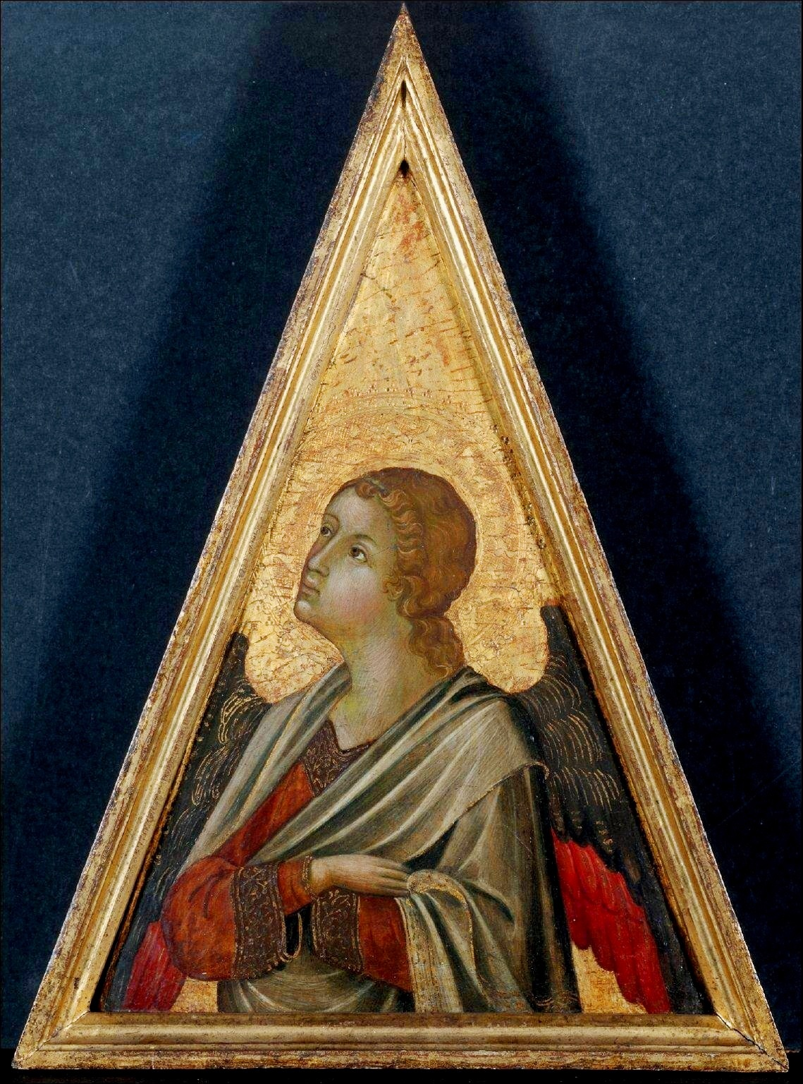 Niccolo di Segna, An Angel, ca. 1340, Cleveland Museum of Art.